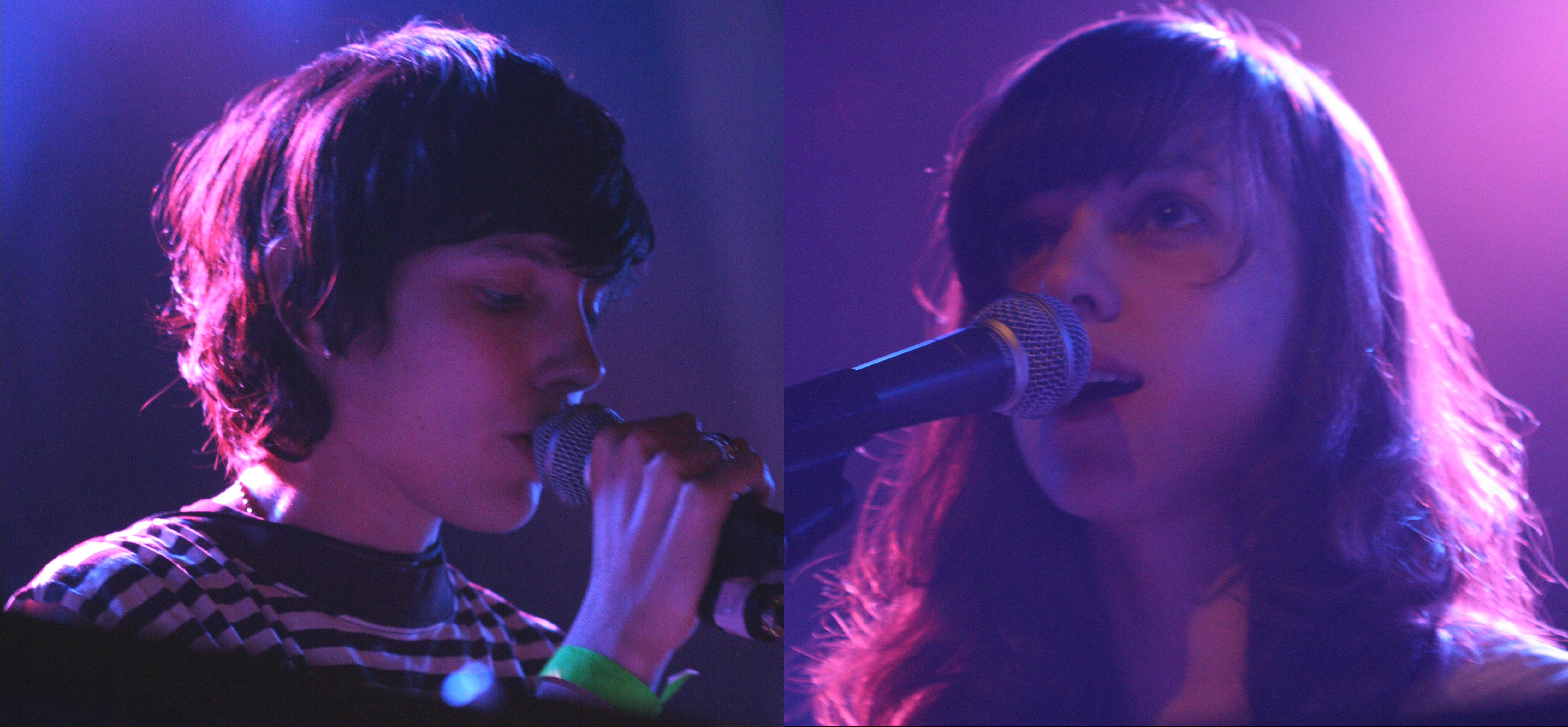 Photomontage of Melissa Livaudais and Busy Gangnes from electropop band Telepathe at Metro in Chicago